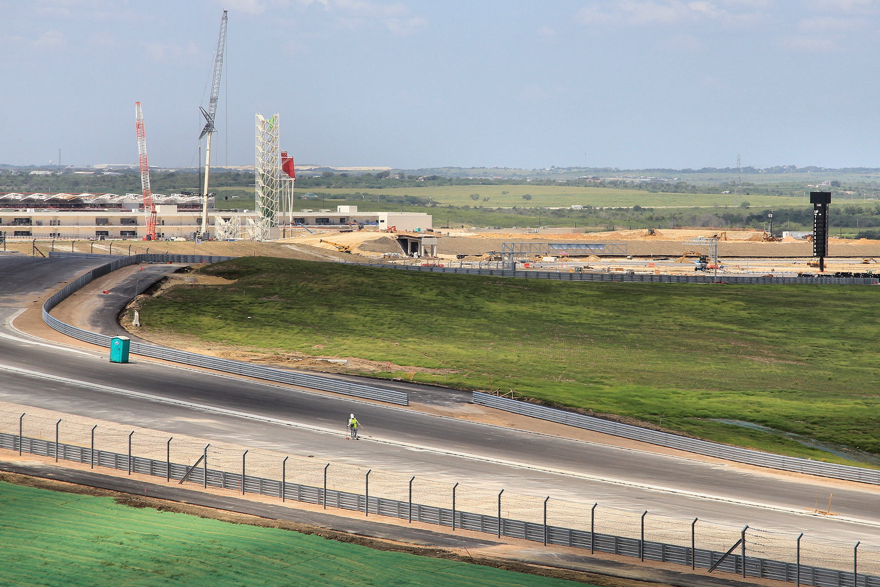 Construction of Circuit of the Americas looking from Turn 11 into Turn 10 with the tower and paddock in the back.